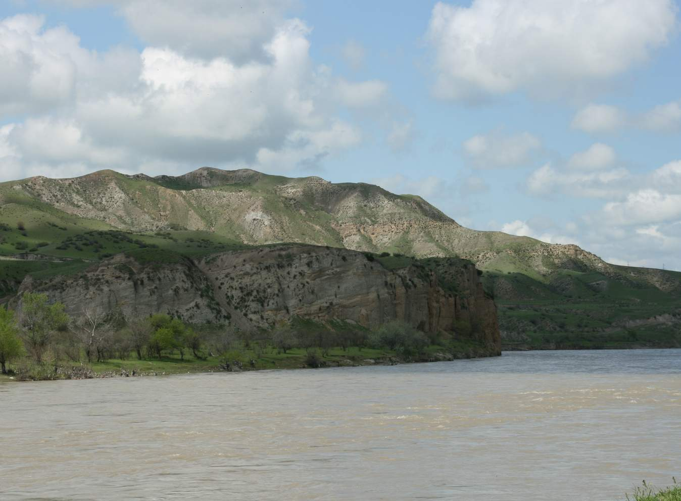 Iagludja Range and the Mtkvari as seen from Rustavi forest. Rustavi, Georgia.